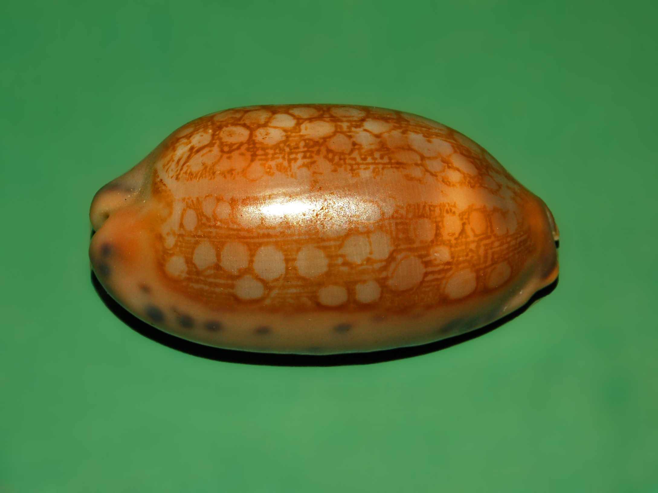 Mauritia scurra - Philippines